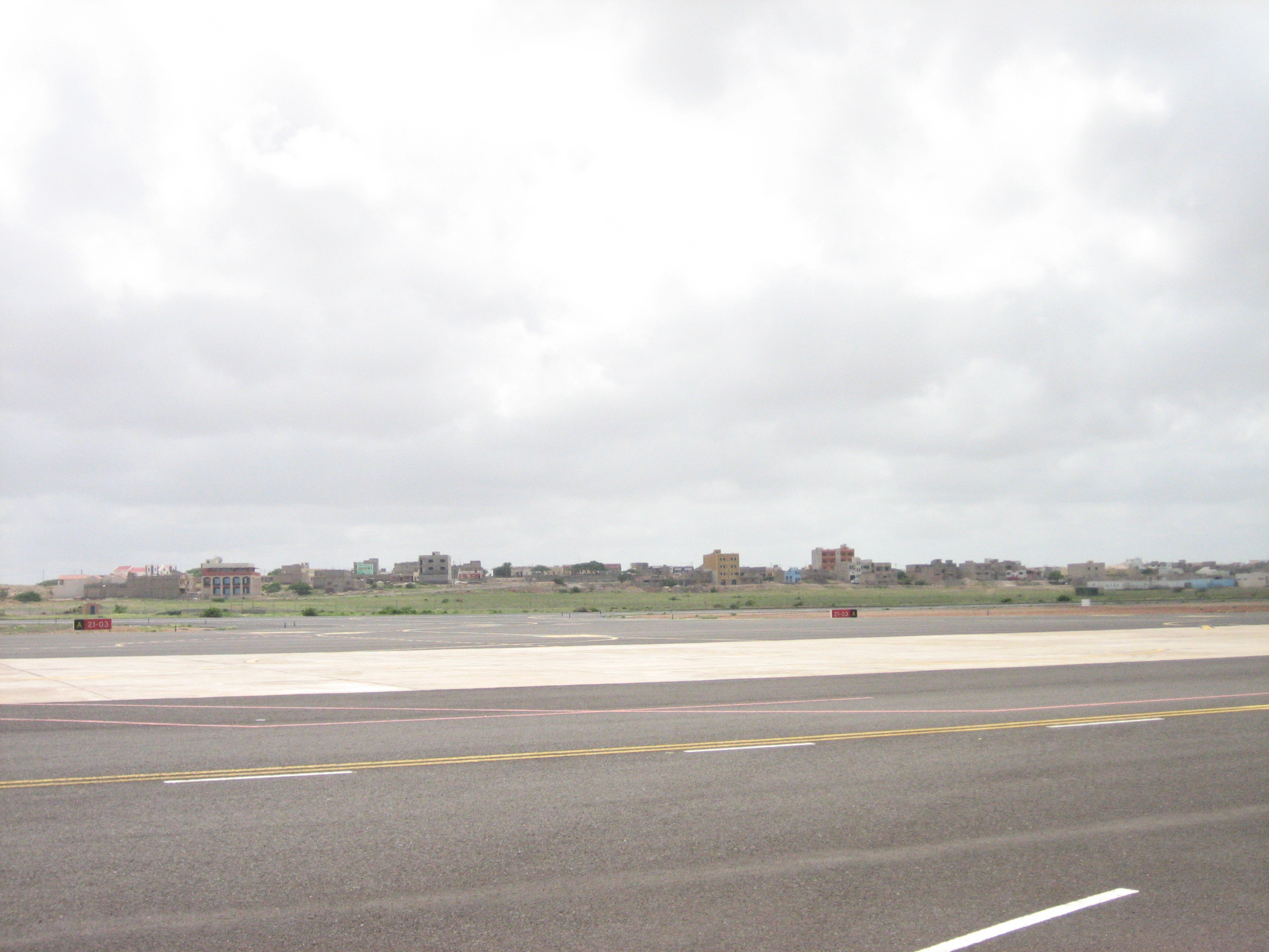 Rabil on the island of Boa Vista seen from the nearby international airport